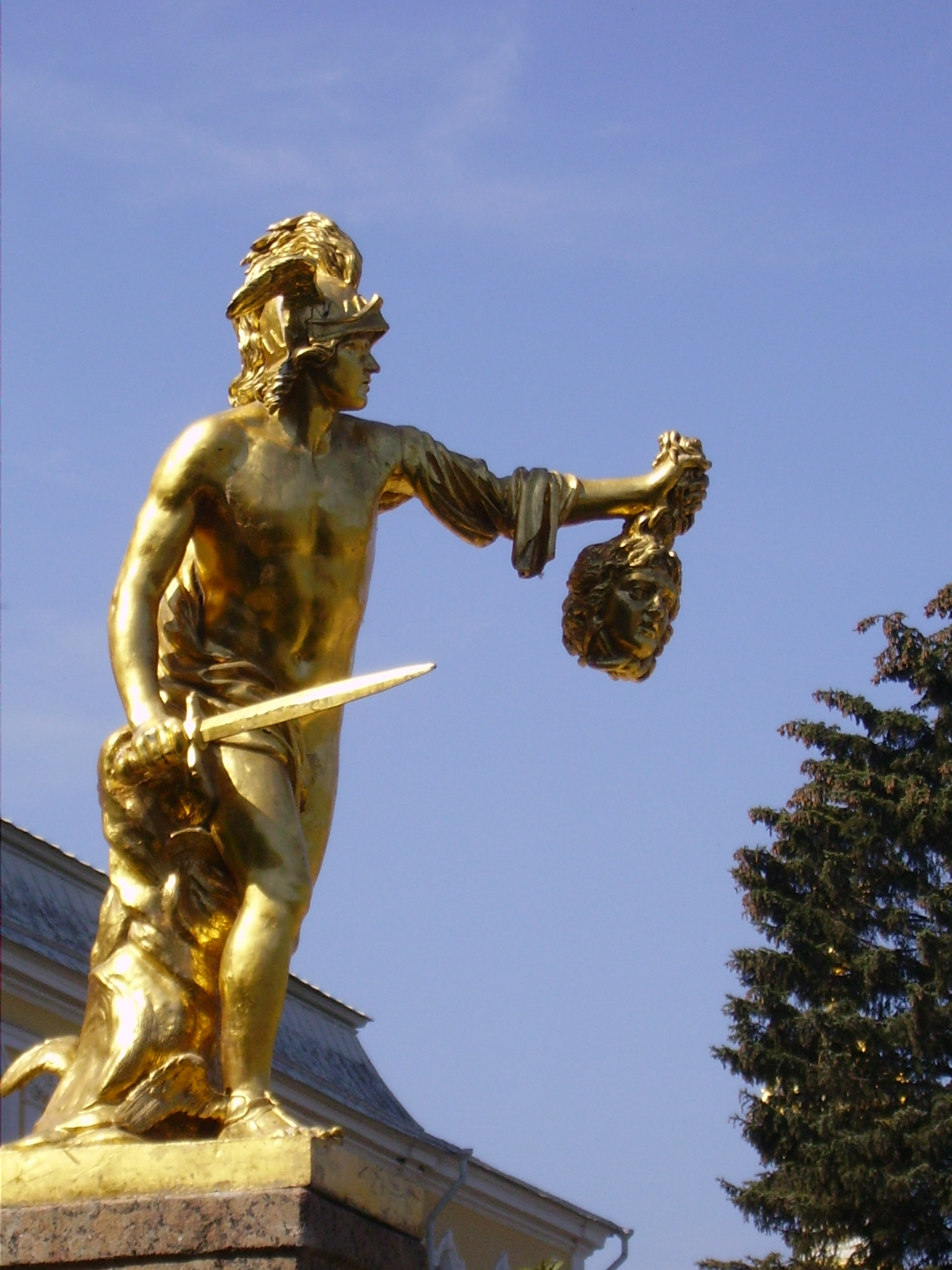 Perseus With the Head of Medusa by Feodosy Fedorovich Shchedrin 1800, at Grand Cascade of Peterhof.